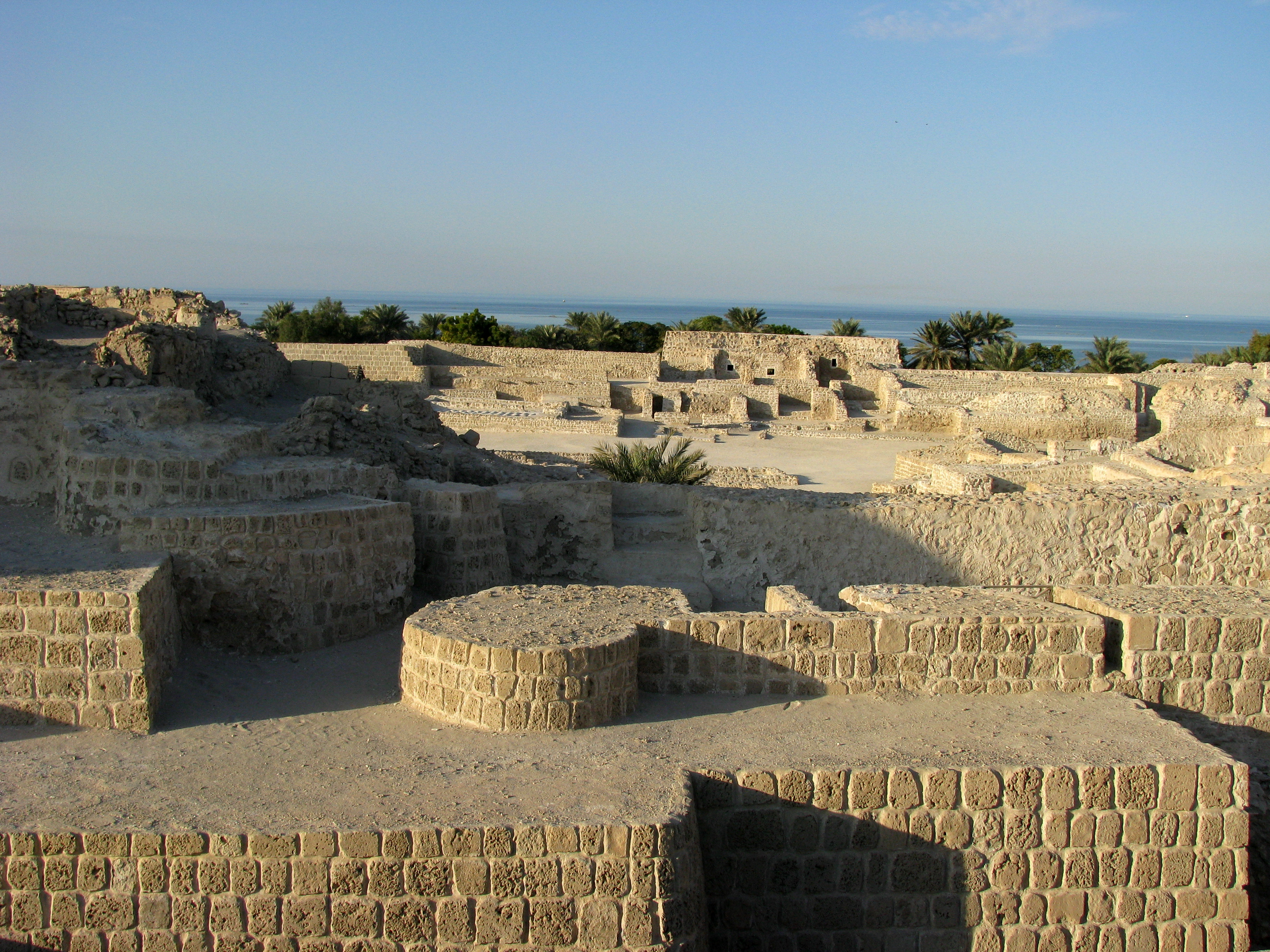 We spent about an hour exploring the different levels and nooks in the fort.